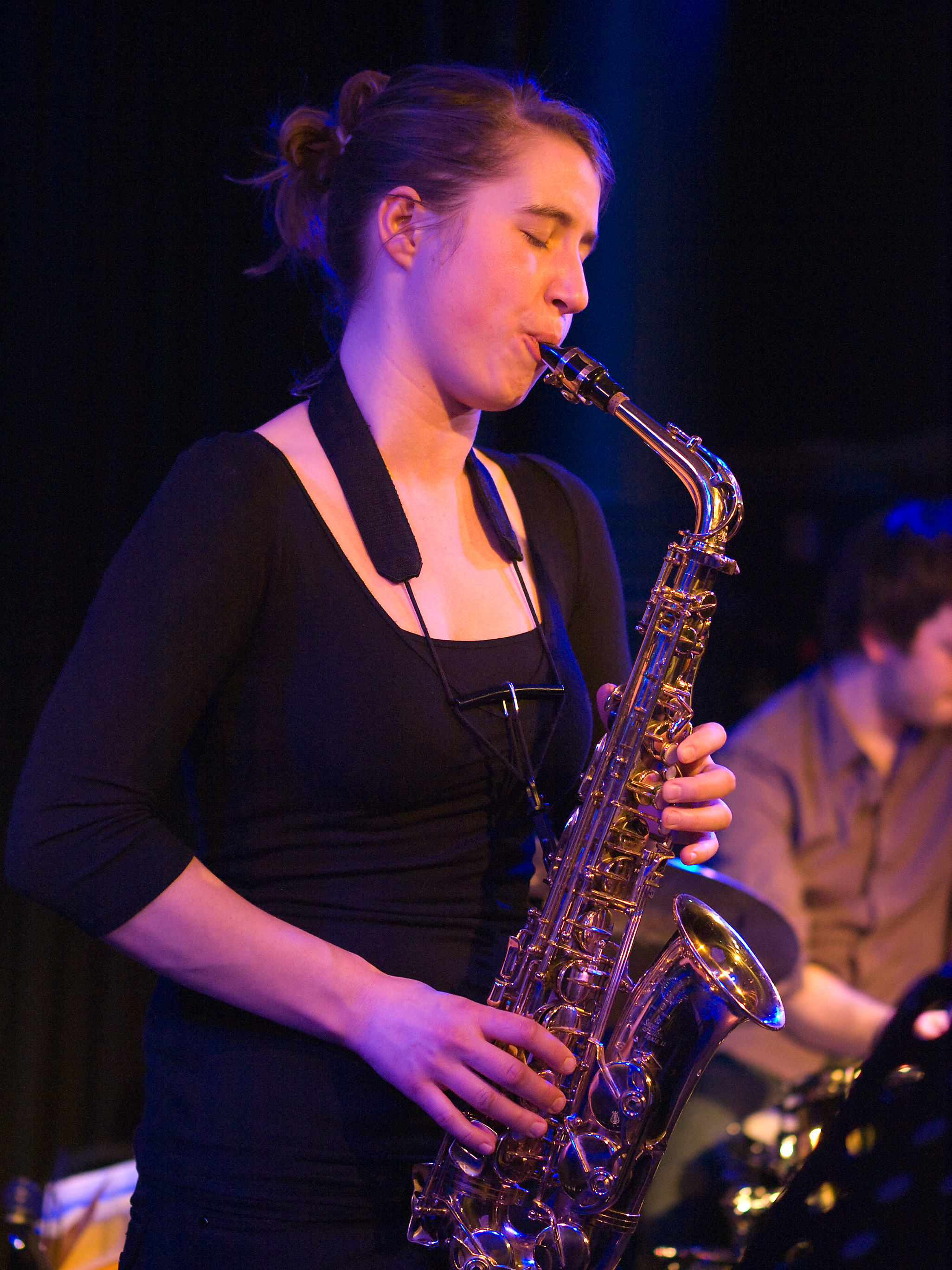 Charlotte Greve, saxophonist, Picture taken in Jazz Club Unterfahrt Munich/Bavaria